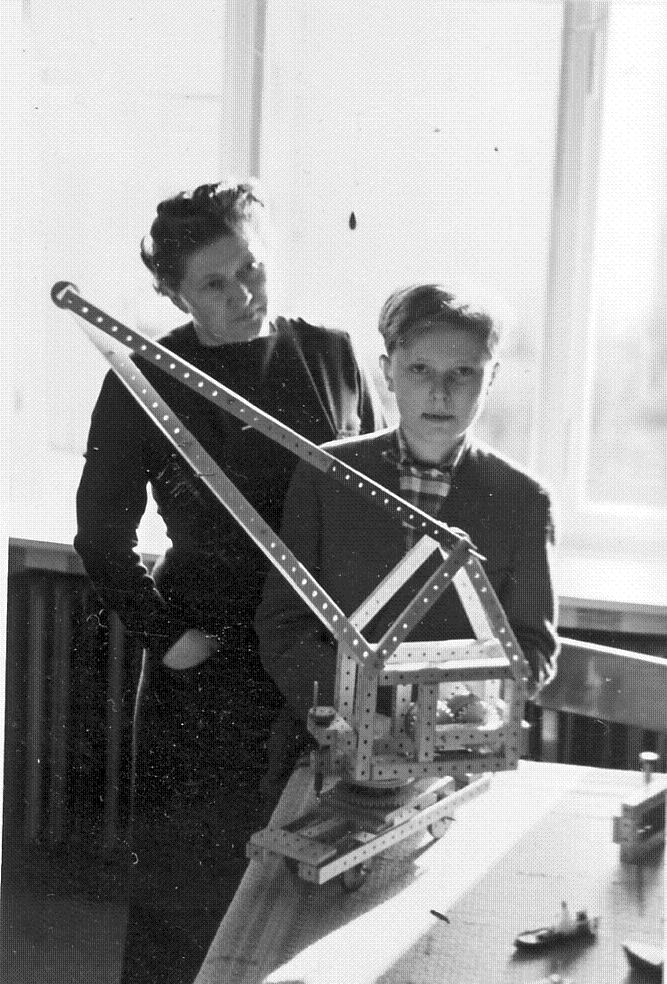 Crane, built with Matador toy blocks.